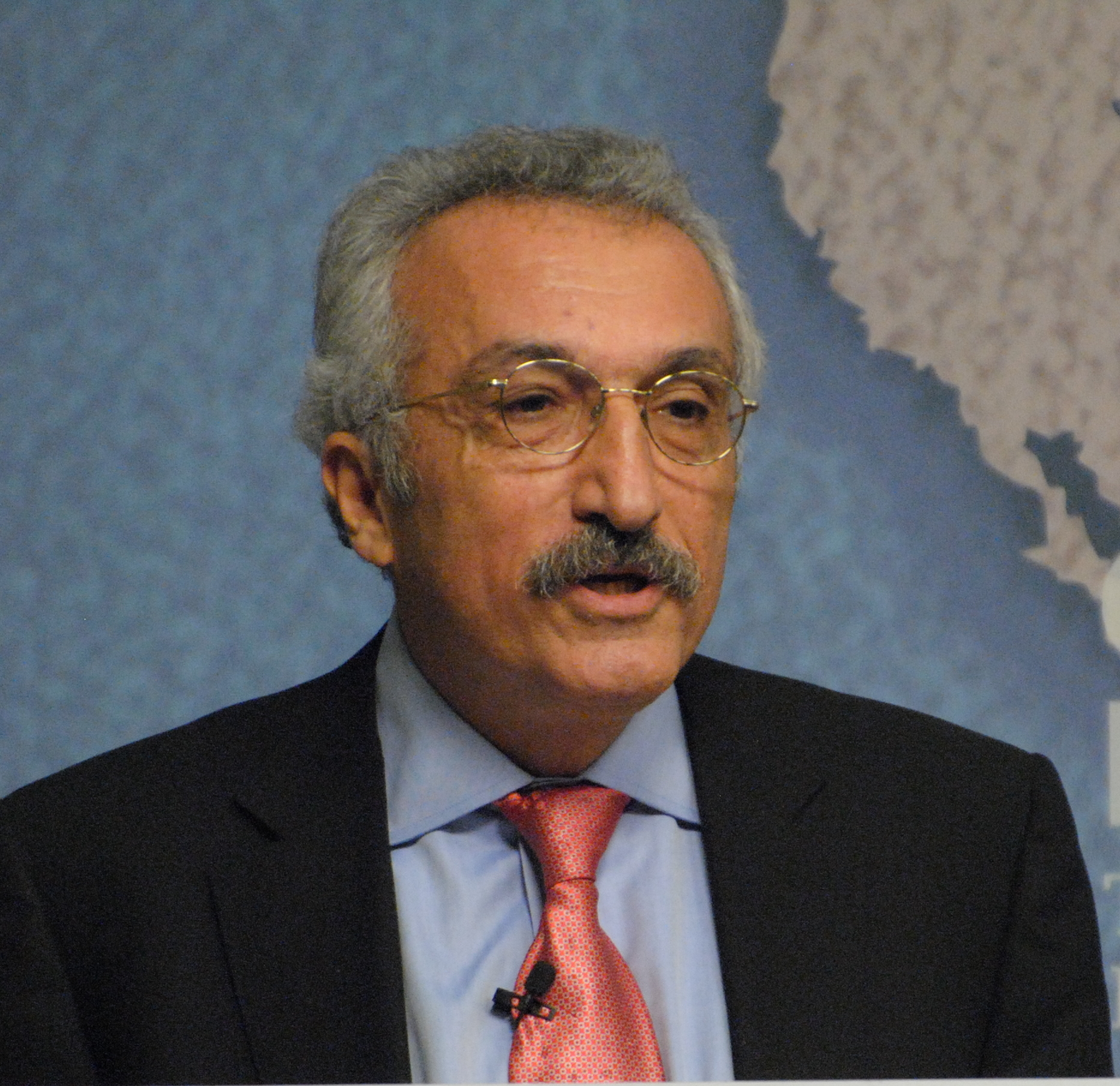 Domestic Dynamics and Foreign Policy: Transition or Trauma in Iran?, 27 November 2014, cht.hm/1y8bww4